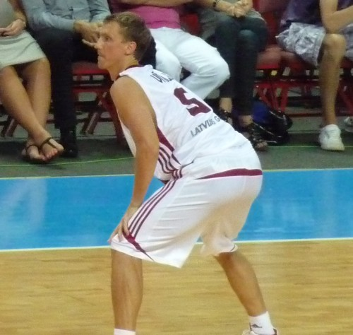 Aigars Vītols (b.1976). Picture taken during friendly match between Latvia and Sweden.